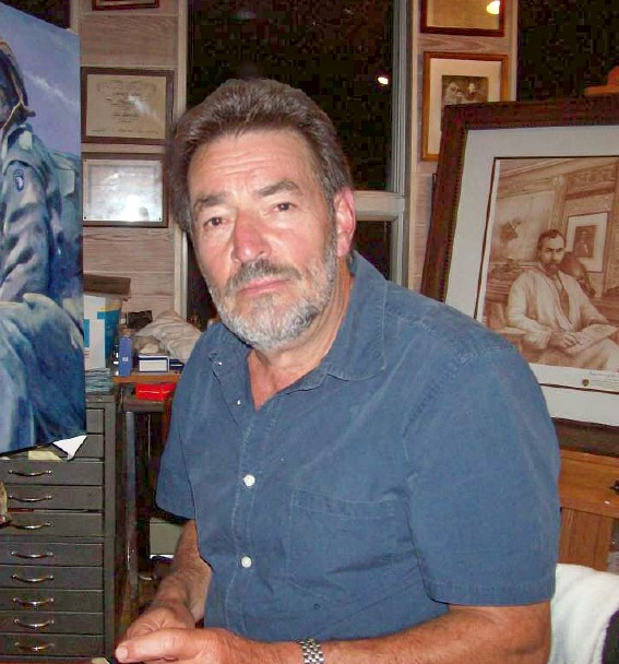 Joel Iskowitz, award-winning artist/illustrator, coin and stamp designer, in his studio , August 2010.